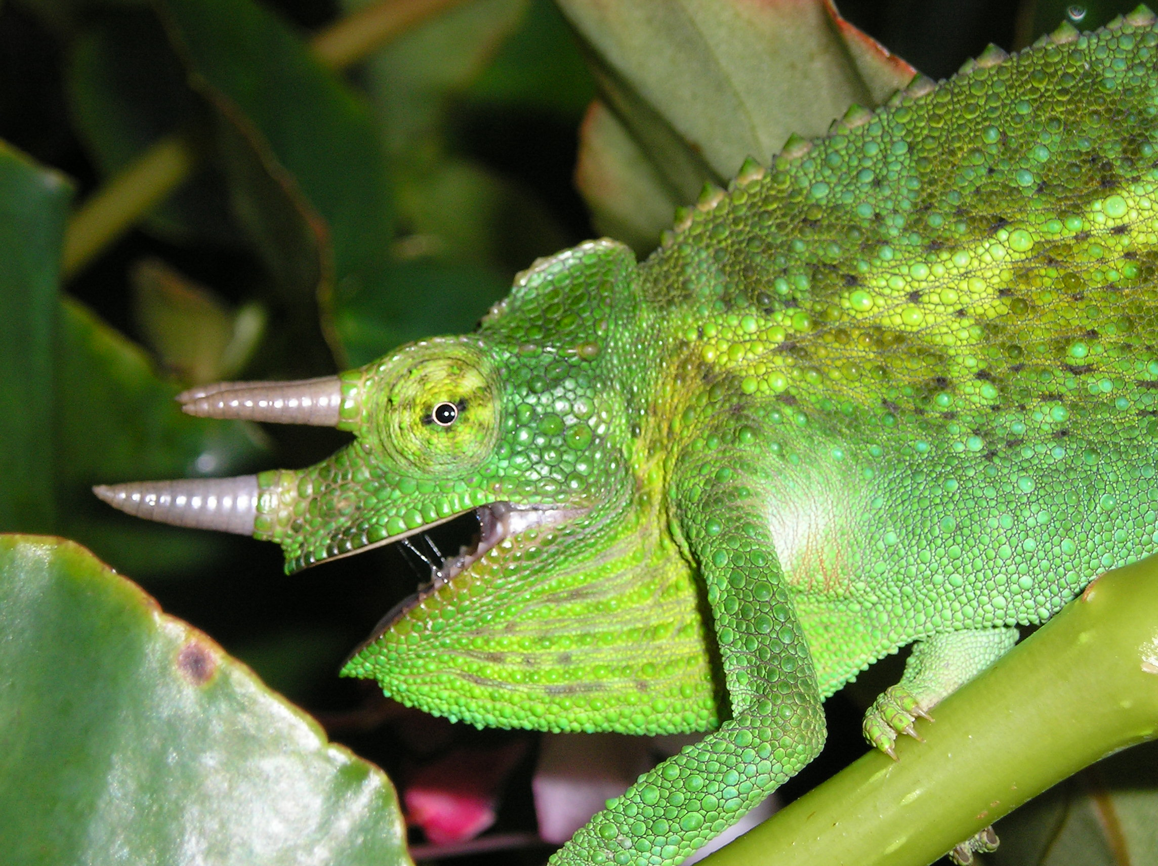 I took this photo on the island of Maui, Hawaii. I give permission for Wikipedia to use it. My name is Rich Torres, Burlingame, Calif.